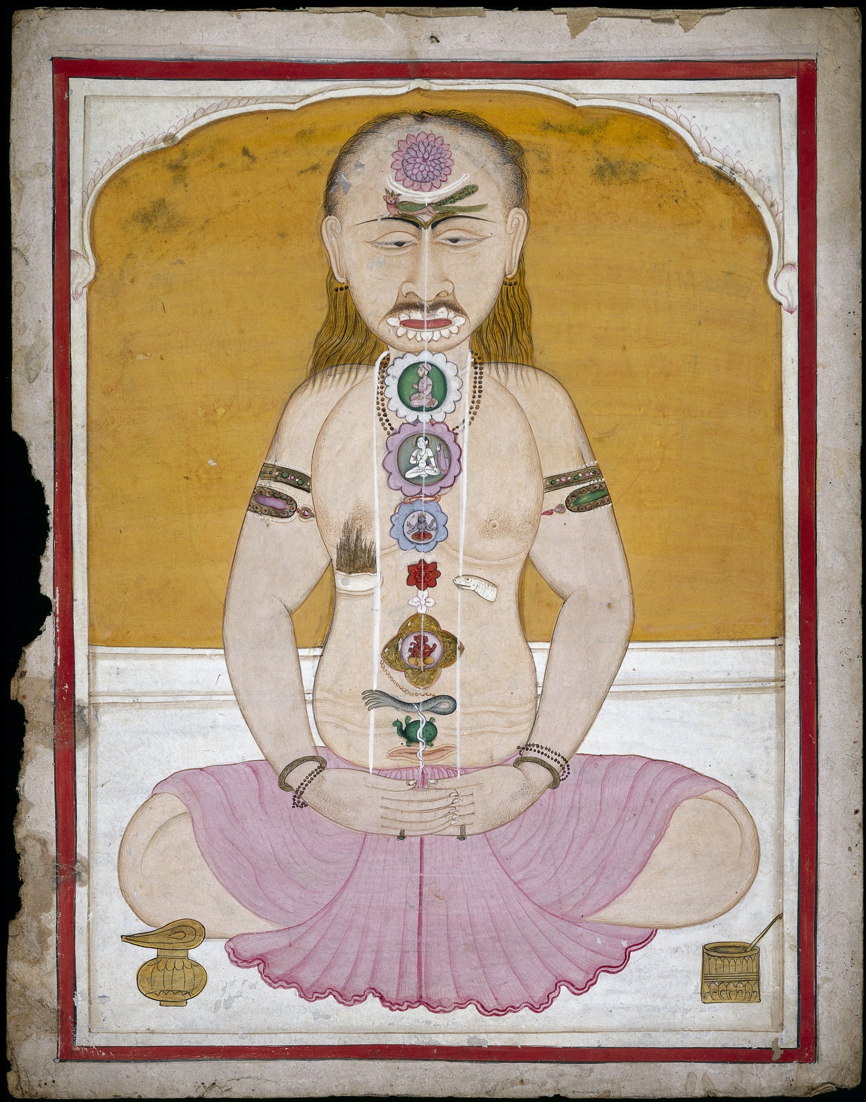 Tantric figure. Tantrika painting. Cakras in the body Indian depiction of the cakra and nadi in the Saiva tradition Colour painting of a cross legged meditor showing cakras and kundalini. Wellcome Images Keywords: ms indic 511; ORIENTAL; tantric figure